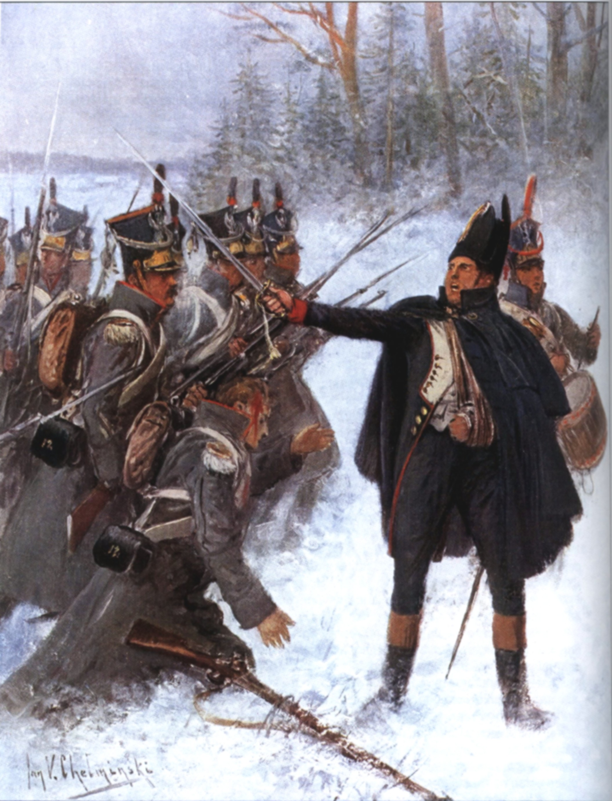 12th Infantry Regiment of Duchy of Warsaw during the Battle of Berezina in 1812